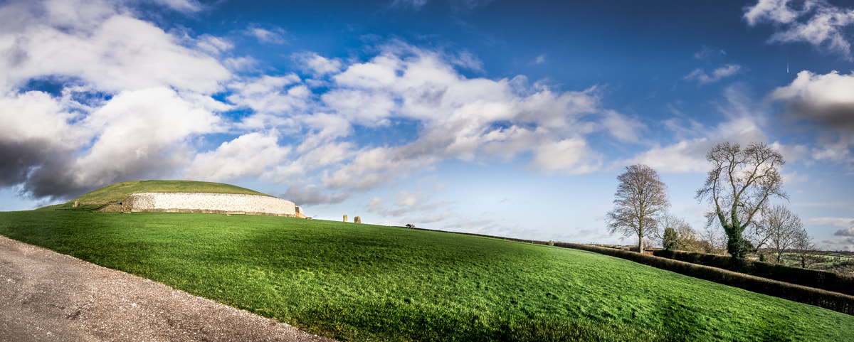 500px provided description: If you like my pictures please support me buying a print from my shop thanks! You can follow me on [#trees ,#sky ,#landscape ,#nature ,#travel ,#light ,#clouds ,#europe ,#tree ,#grass ,#history ,#photo ,#green ,#sony ,#panorama ,#weather ,#photography ,#ireland ,#full frame ,#fullframe ,#geotagged ,#a7 ,#megalithic ,#ultra wide ,#newgrange ,#sony a7 ,#sonya7]